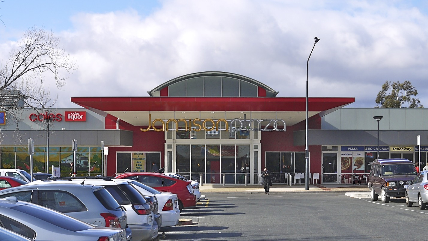 Main entrance to Jamison Plaza.